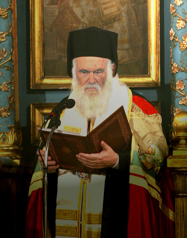 The Archbishop of Athens and All Greece Hieronymus (Ιερώνυμος, Ieronimos)